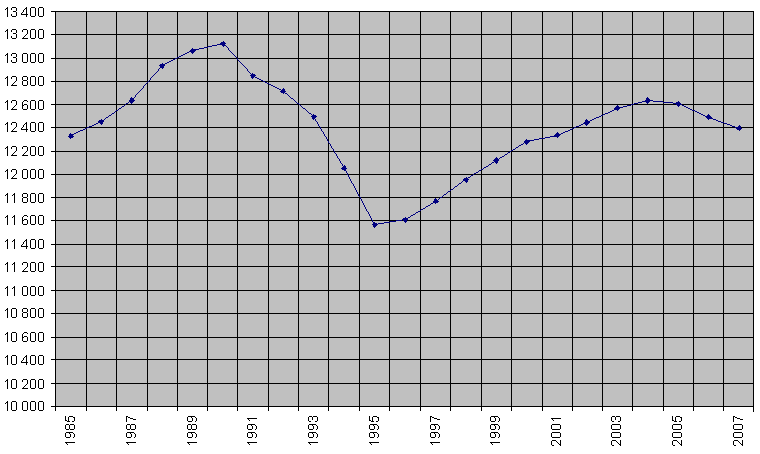 This diagram shows changes in population of Tórshavn since 1985 to 2007. It's made in Microsoft Excel program.